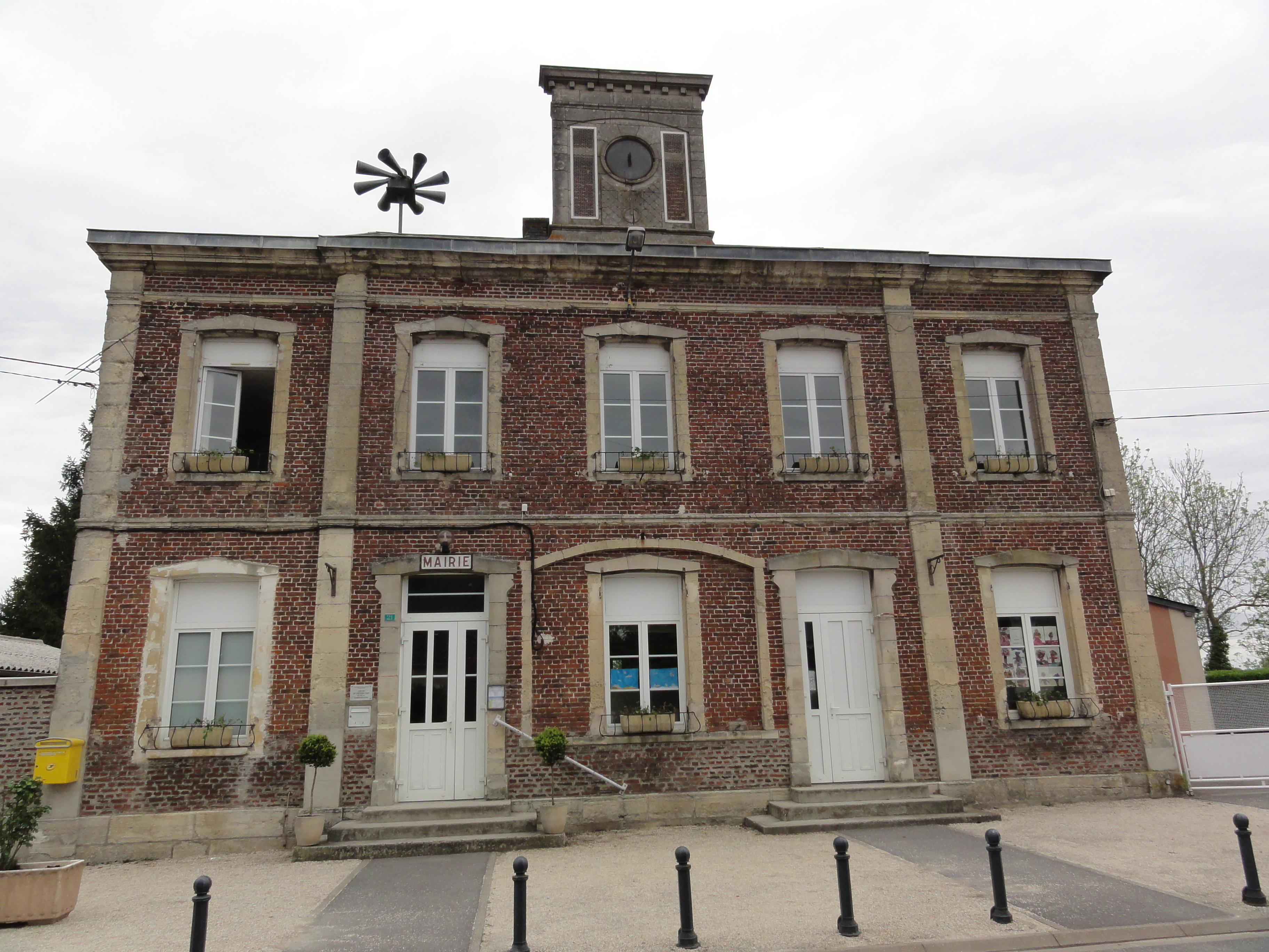 Monceau-lès-Leups (Aisne) mairie - école